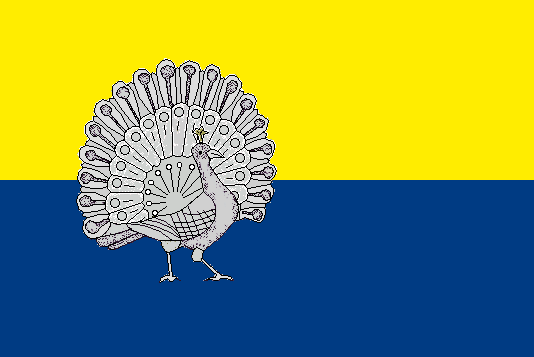 Keonjhar flag. Source FOTW